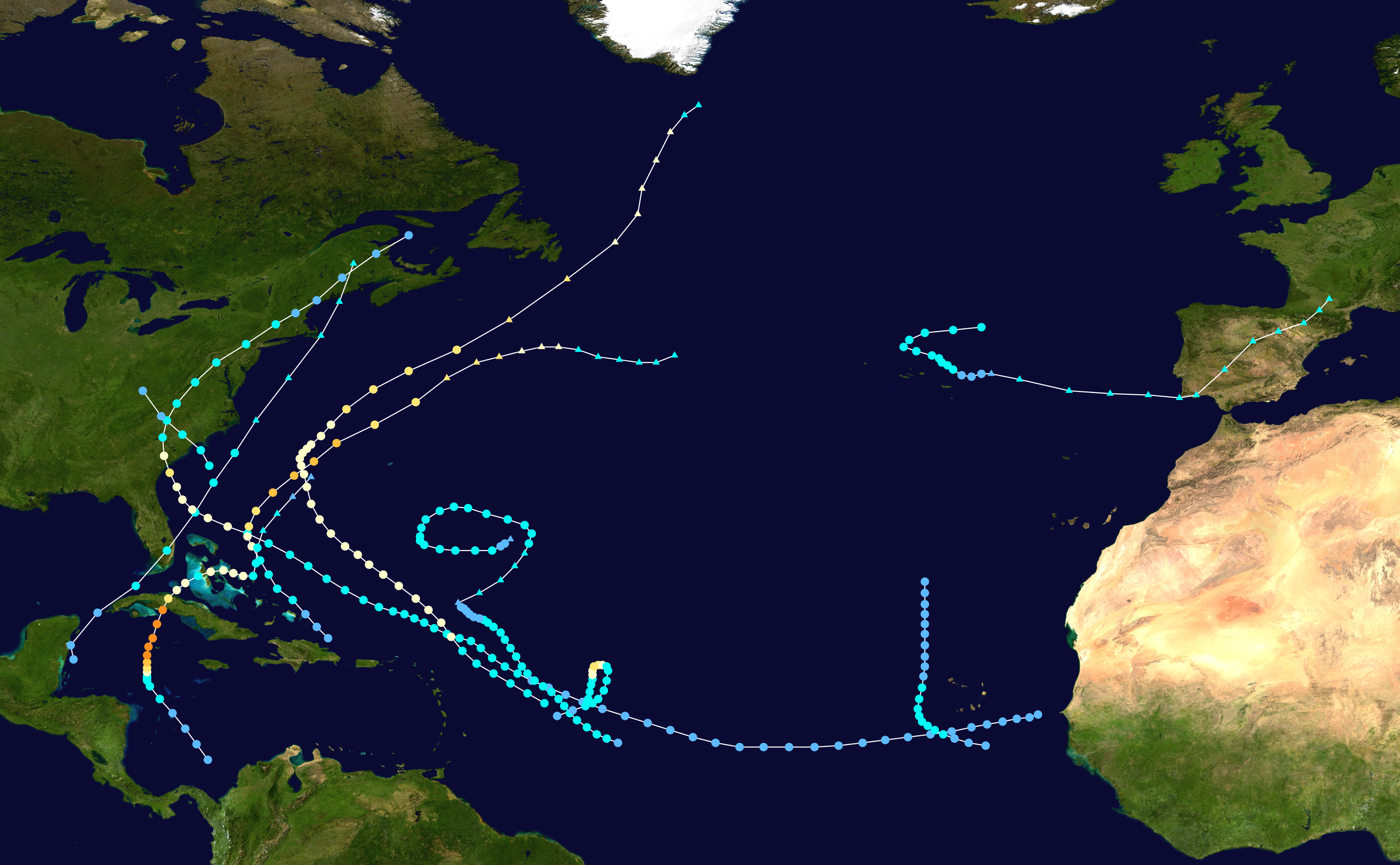 This map shows the tracks of all tropical cyclones in the 1952 Atlantic hurricane season. The points show the location of each storm at 6-hour intervals. The colour represents the storm's maximum sustained wind speeds as classified in the Saffir-Simpson Hurricane Scale (see below), and the shape of the data points represent the nature of the storm. Saffir–Simpson hurricane wind scale Tropical depression≤38 mph≤62 km/h Category 3111–129 mph178–208 km/h Tropical storm39–73 mph63–118 km/h Category 4130–156 mph209–251 km/h Category 174–95 mph119–153 km/h Category 5≥157 mph≥252 km/h Category 296–110 mph154–177 km/h Unknown Storm typeTropical cycloneSubtropical cycloneExtratropical cyclone / Remnant low / Tropical disturbance